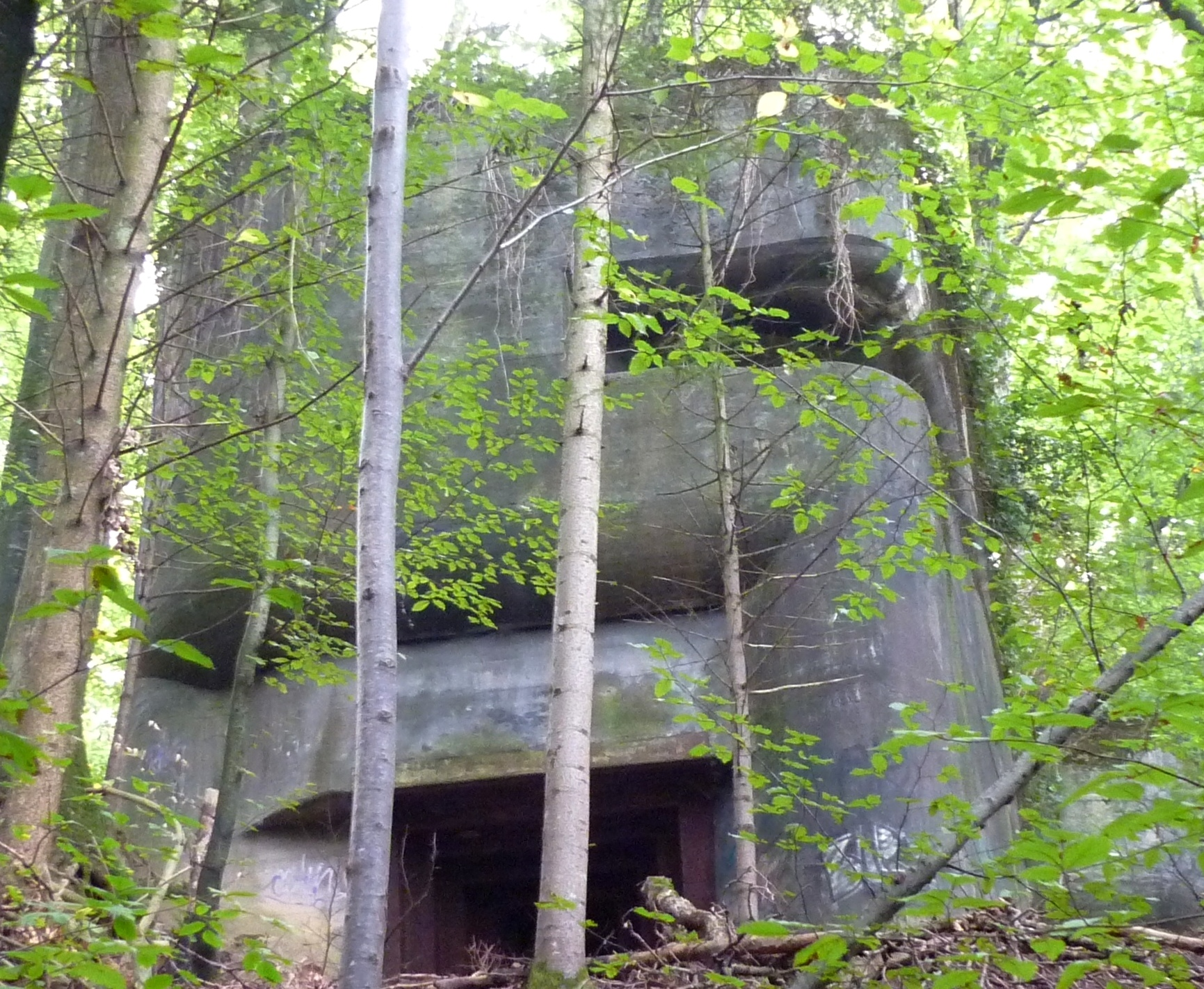 Multi function bunker, Baden AG, Switzerland